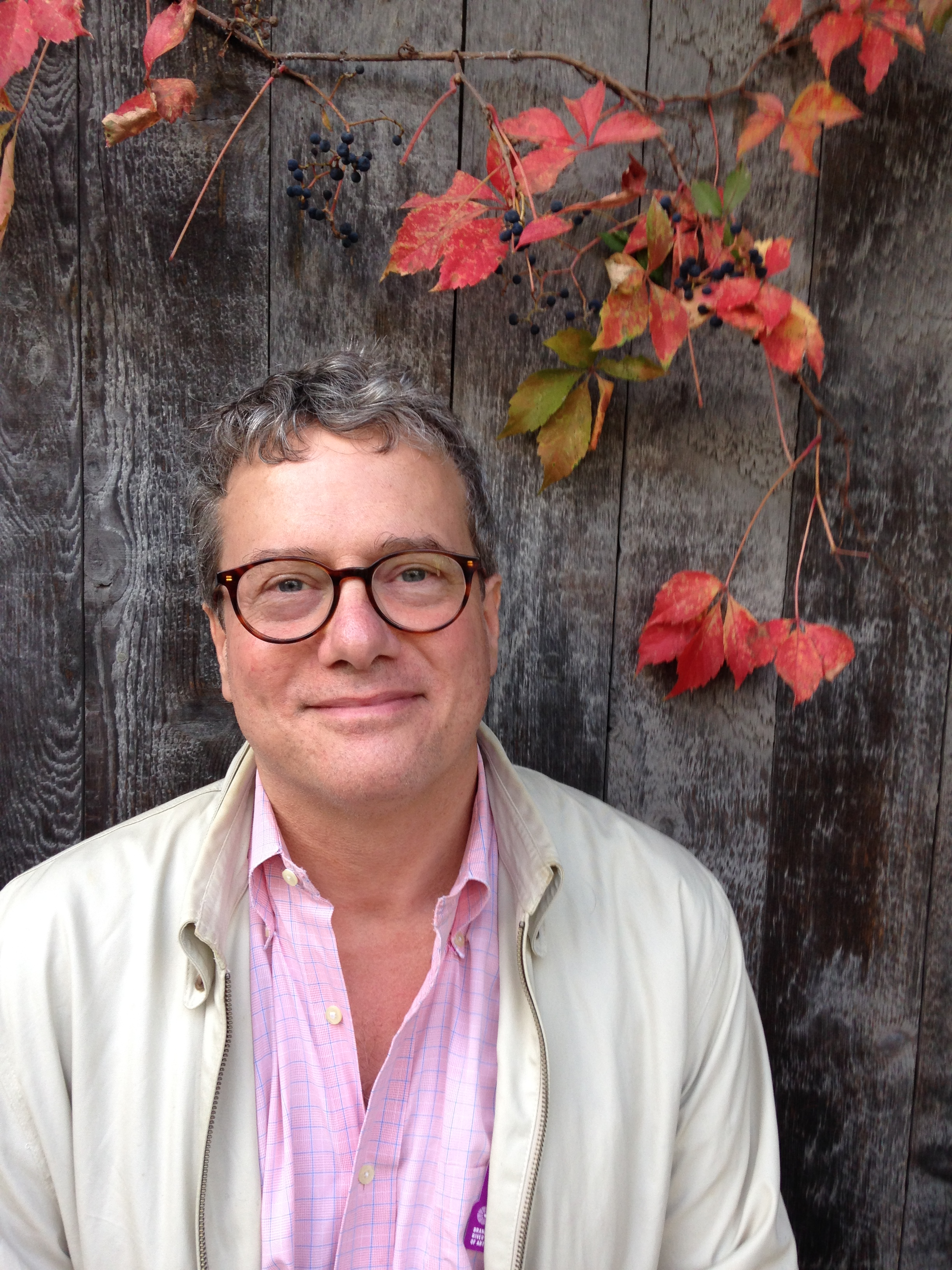 Photo of Timothy Noah in Chadds Ford, Pa.